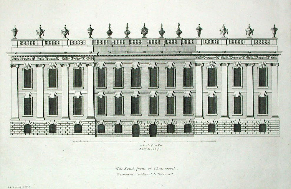 The south front of Chatsworth House in Derbyshire, England, from Colen Campbell's Vitruvius Britannicus.